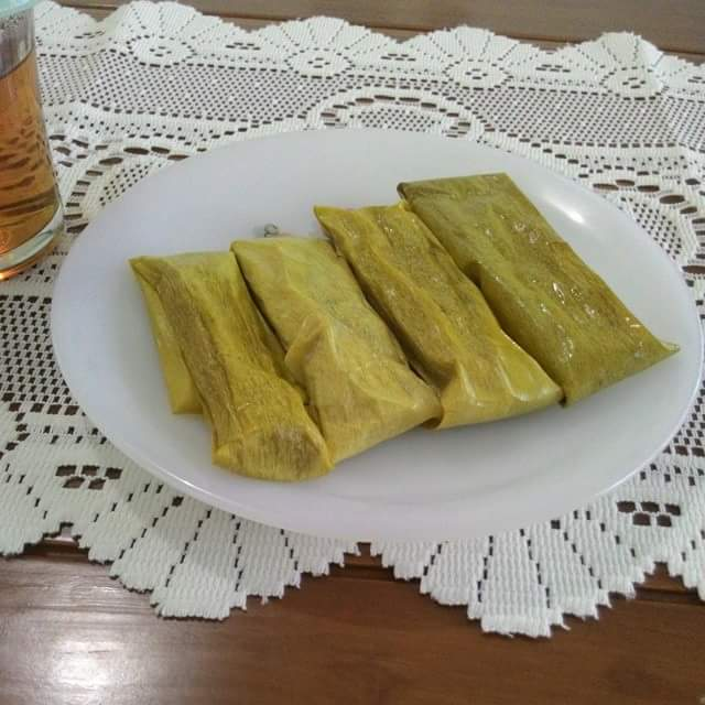 Acehnese traditional food.